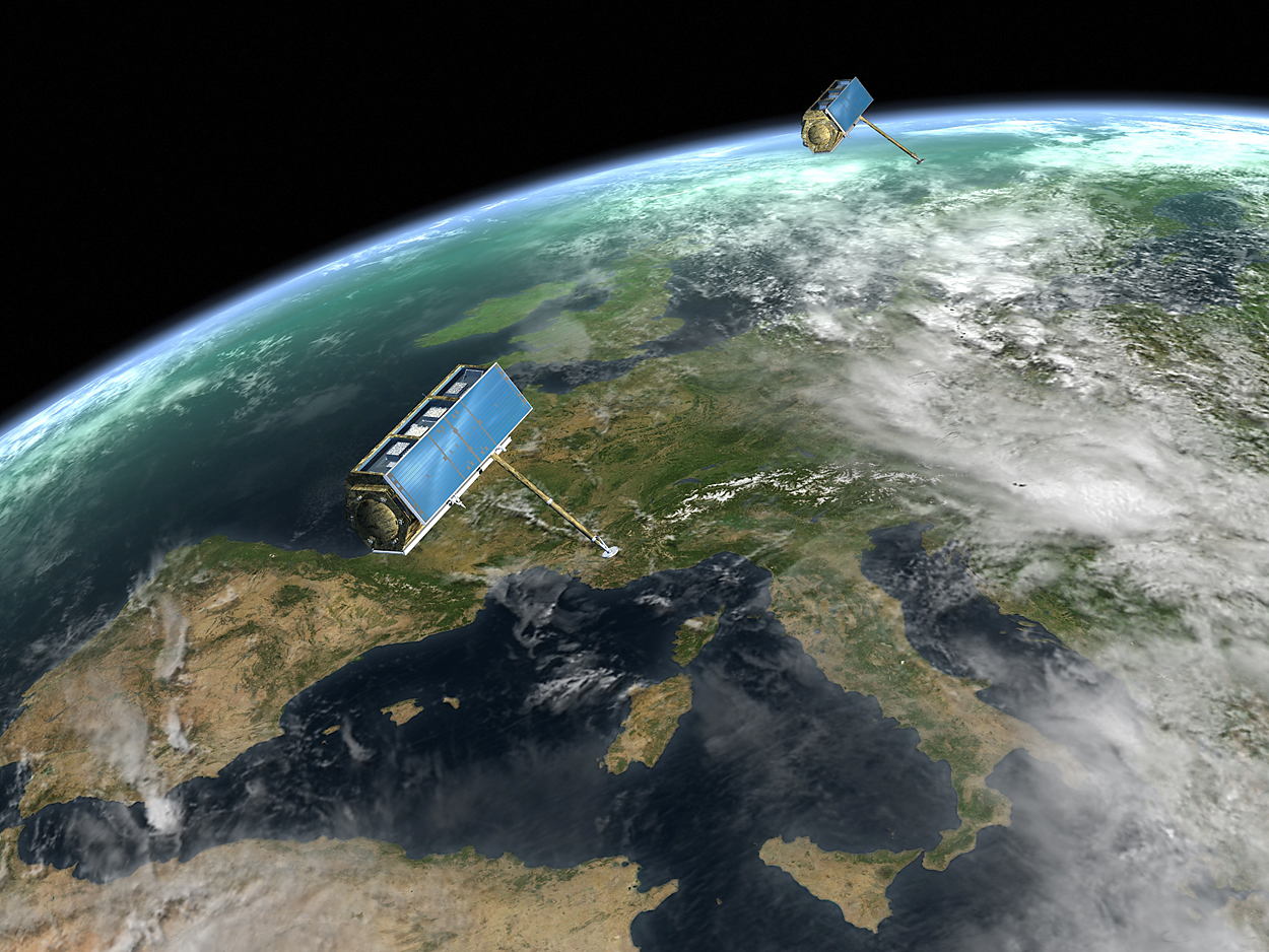 In October 2009 TanDEM-X, a satellite identical in construction to TerraSAR-X, was launched. This artist's impression shows the formation flight of the two satellites, which was planned for January 2010, which will generate a three-dimensional digital elevation model of Earth.